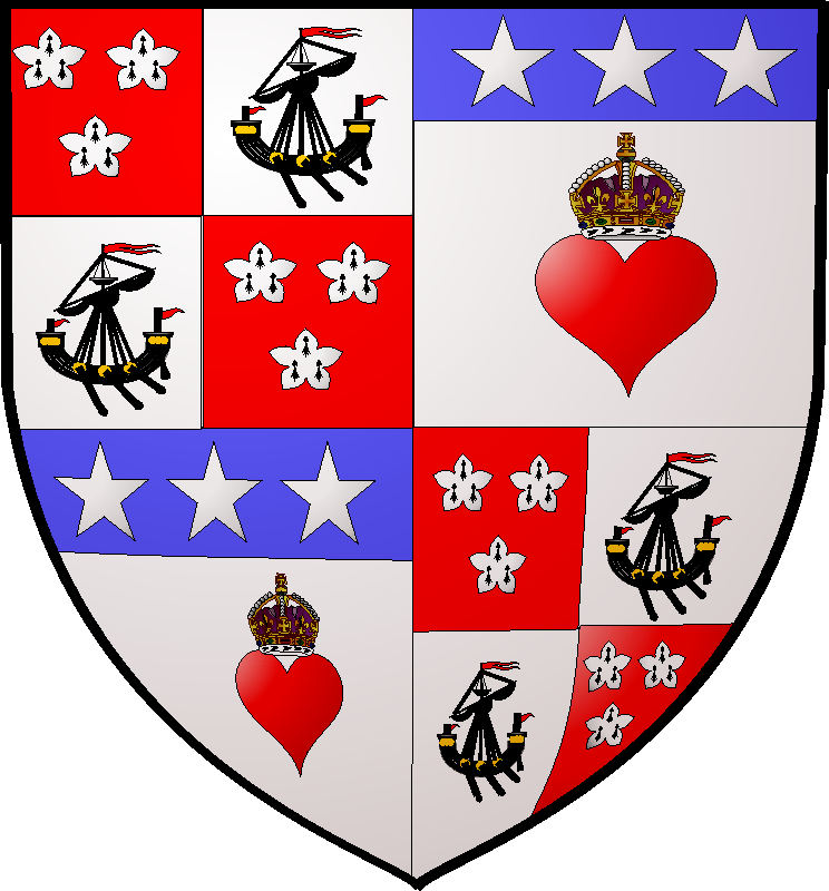 Coat of arms of the Dukes of Hamilton since 1656 Blazon: Quarterly: 1st and 4th grandquarters: quarterly: 1st and 4th Gules three cinquefoils Ermine (for Hamilton); 2nd and 3rd Argent a lymphad with the sails furled proper flagged Gules (for Arran); 2nd and 3rd Argent a heart Gules imperially crowned Or on a chief Azure three mullets of the first (for Douglas).